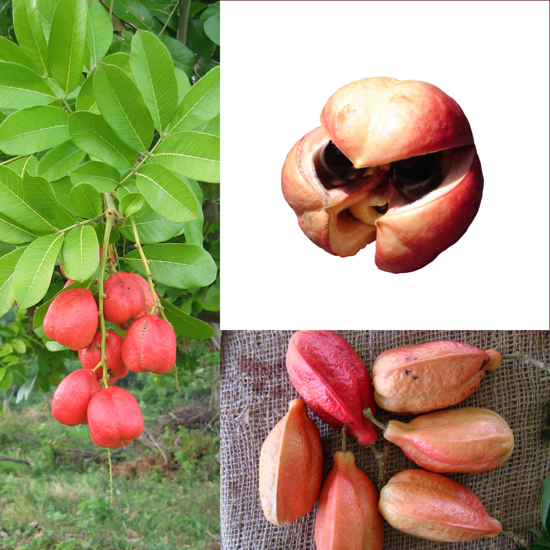 Ackee - the fruit of Blighia sapida.